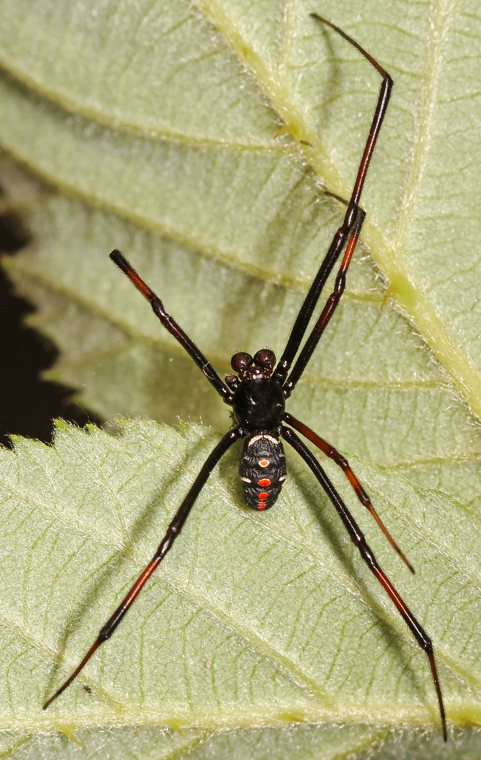 Northern Black Widow - Latrodectus variolus, Julie Metz Wetlands, Woodbridge, Virginia He's missing a couple of legs. One wonders if that's due to a vicious predator, perhaps a female black widow?